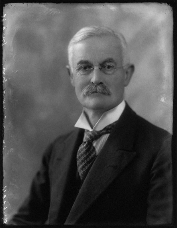 by Bassano, whole-plate glass negative, 29 April 1929